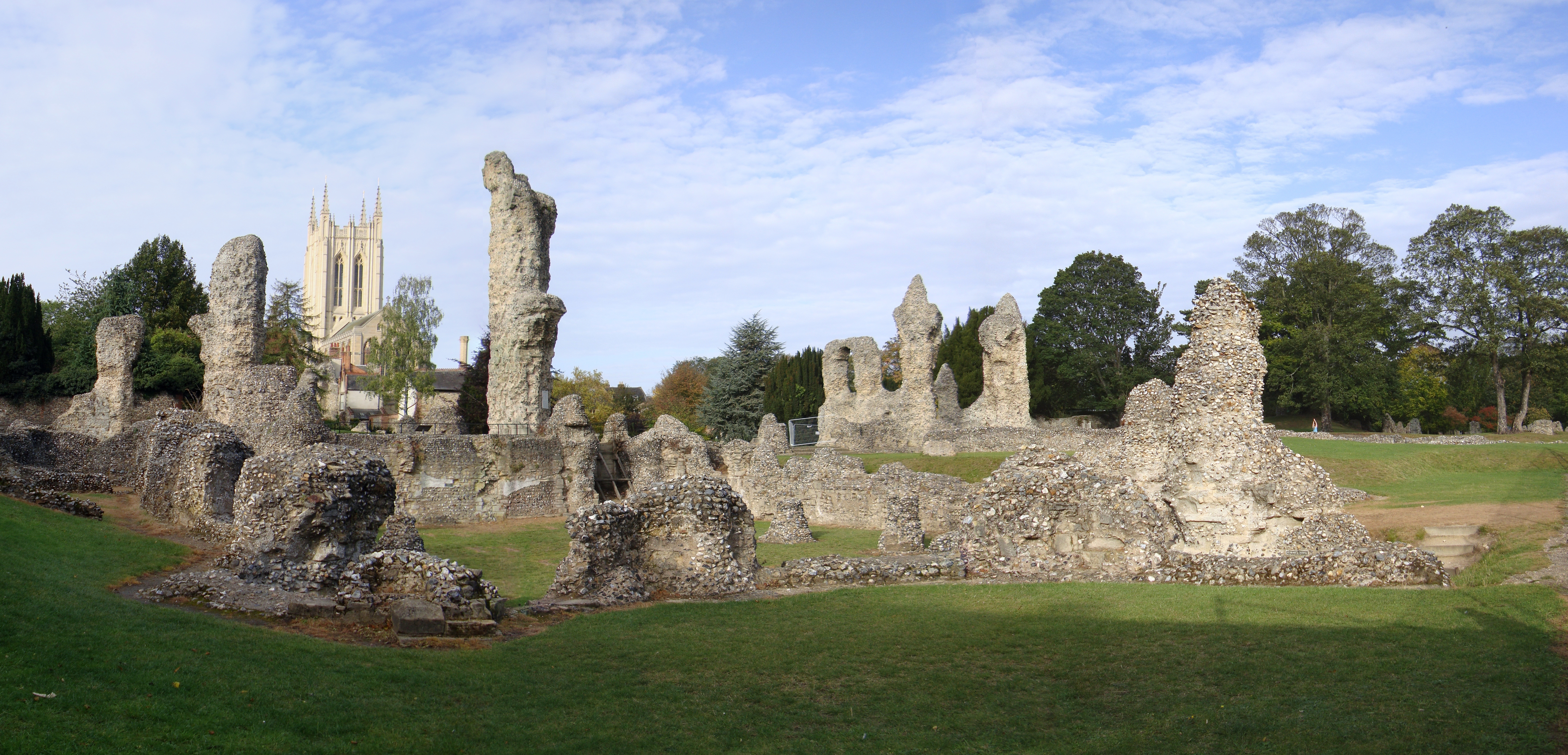 Composite panorama photograph of the remains of Bury St Edmunds Abbey, Suffolk, England, with the tower of St James' Cathedral in the background